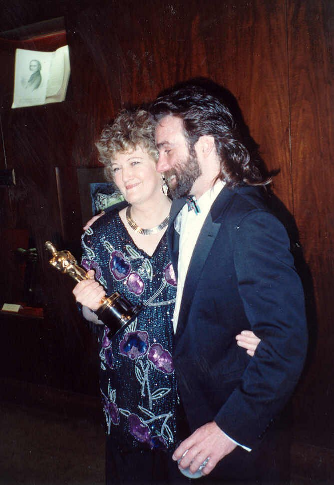 Oscar winner Brenda Fricker at the 62nd Annual Academy Awards.